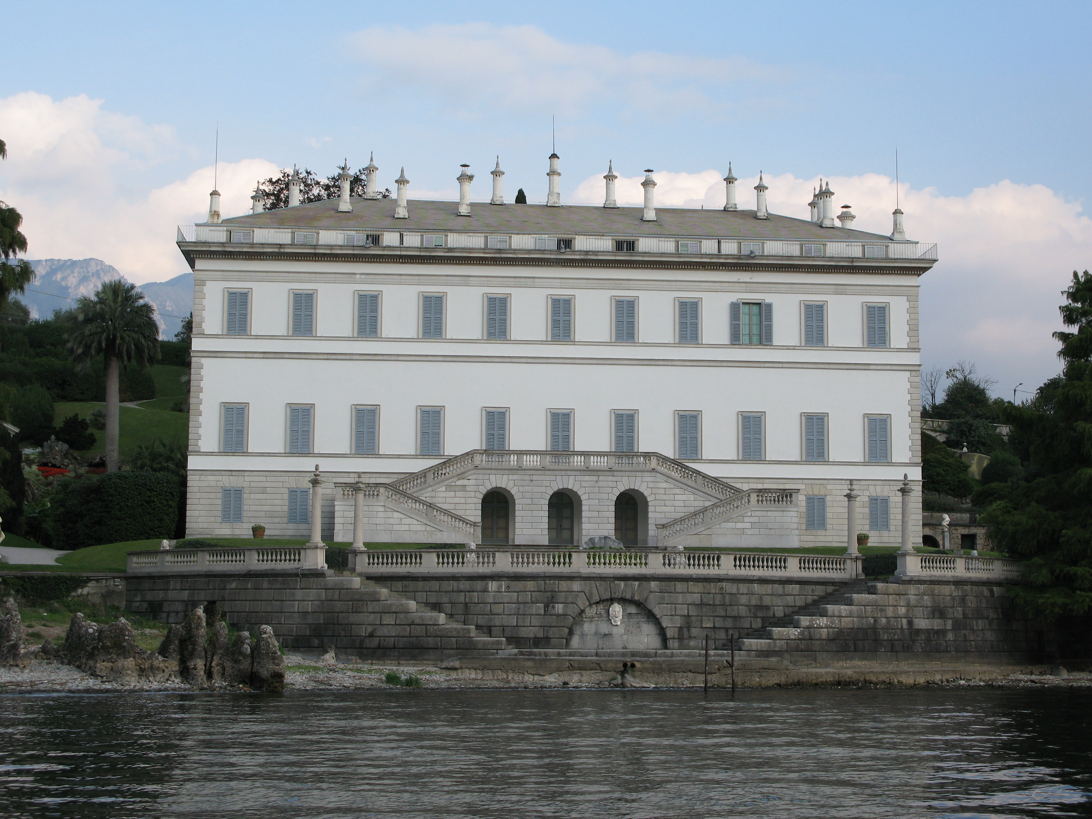 A view of Villa Melzid'Eril from Lake Como.